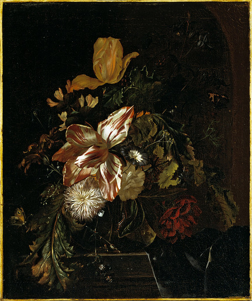 Flowers in a glass vase on a stone ledge